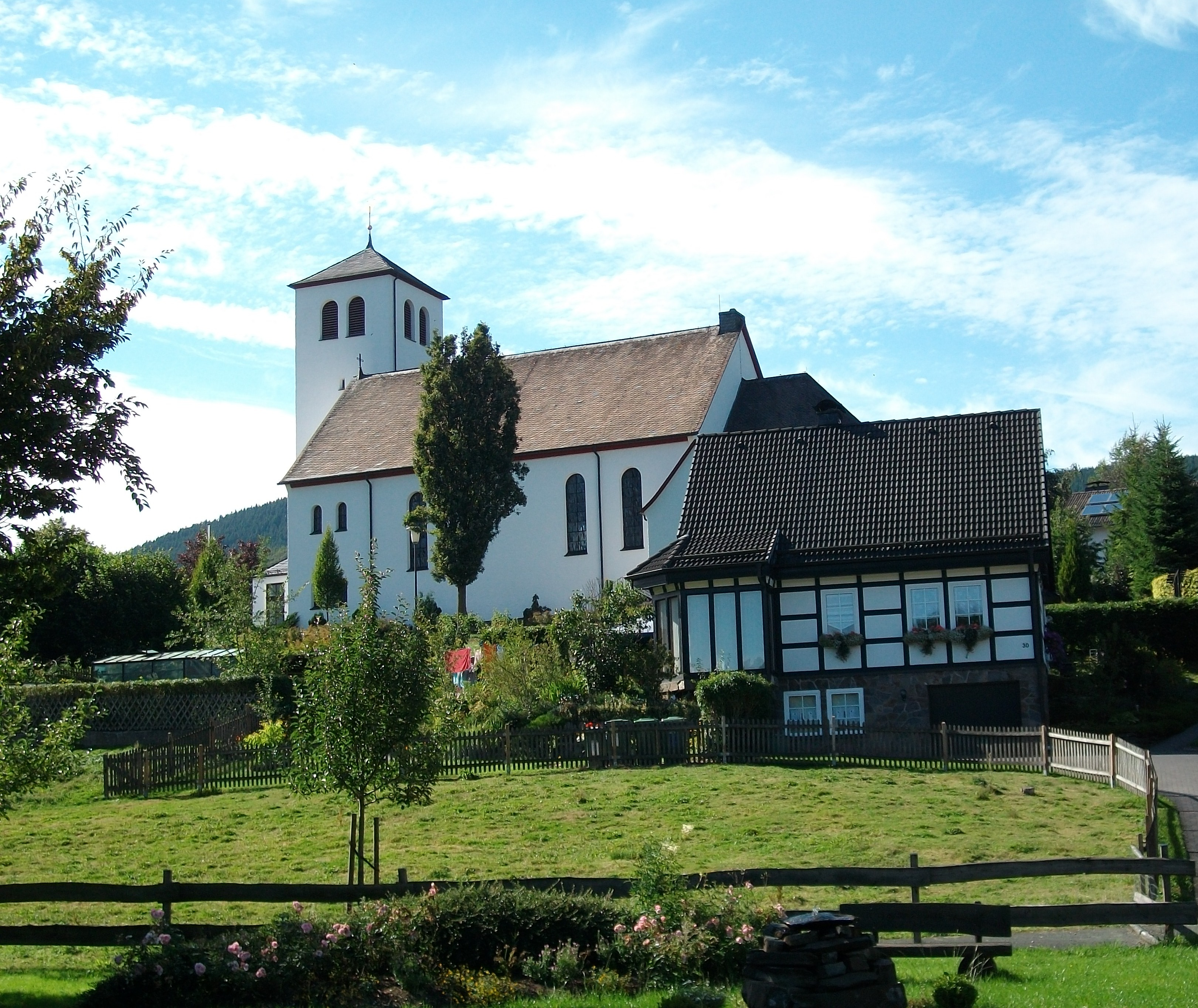 St. Sebastian Kirche, Niedersalwey, Eslohe (Germany)